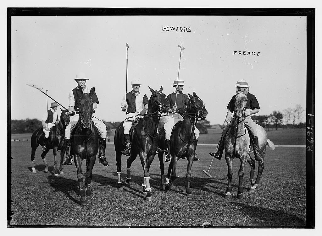 Edwards, Frederick Freake, and others -- Polo (LOC) circa 1912-1914 Bain News Service,, publisher. Edwards, Freake, and others -- Polo [between ca. 1910 and ca. 1915] 1 negative : glass ; 5 x 7 in. or smaller. Notes: Title from unverified data provided by the Bain News Service on the negatives or caption cards. Forms part of: George Grantham Bain Collection (Library of Congress). Format: Glass negatives. Repository: Library of Congress, Prints and Photographs Division, Washington, D.C. 20540 USA, General information about the Bain Collection is available at Persistent URL: Call Number: LC-B2- 2691-1